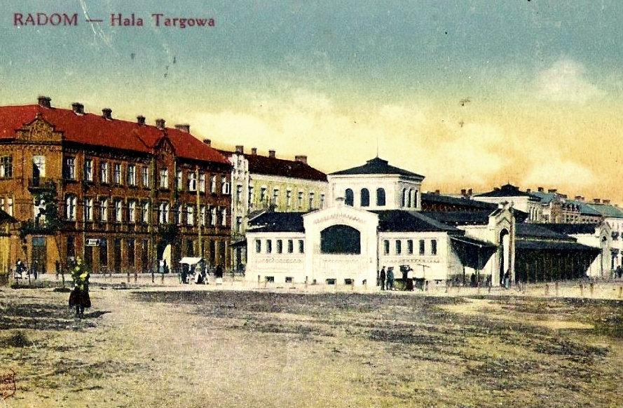 Market Hall, Radom, Poland, ca. 1917